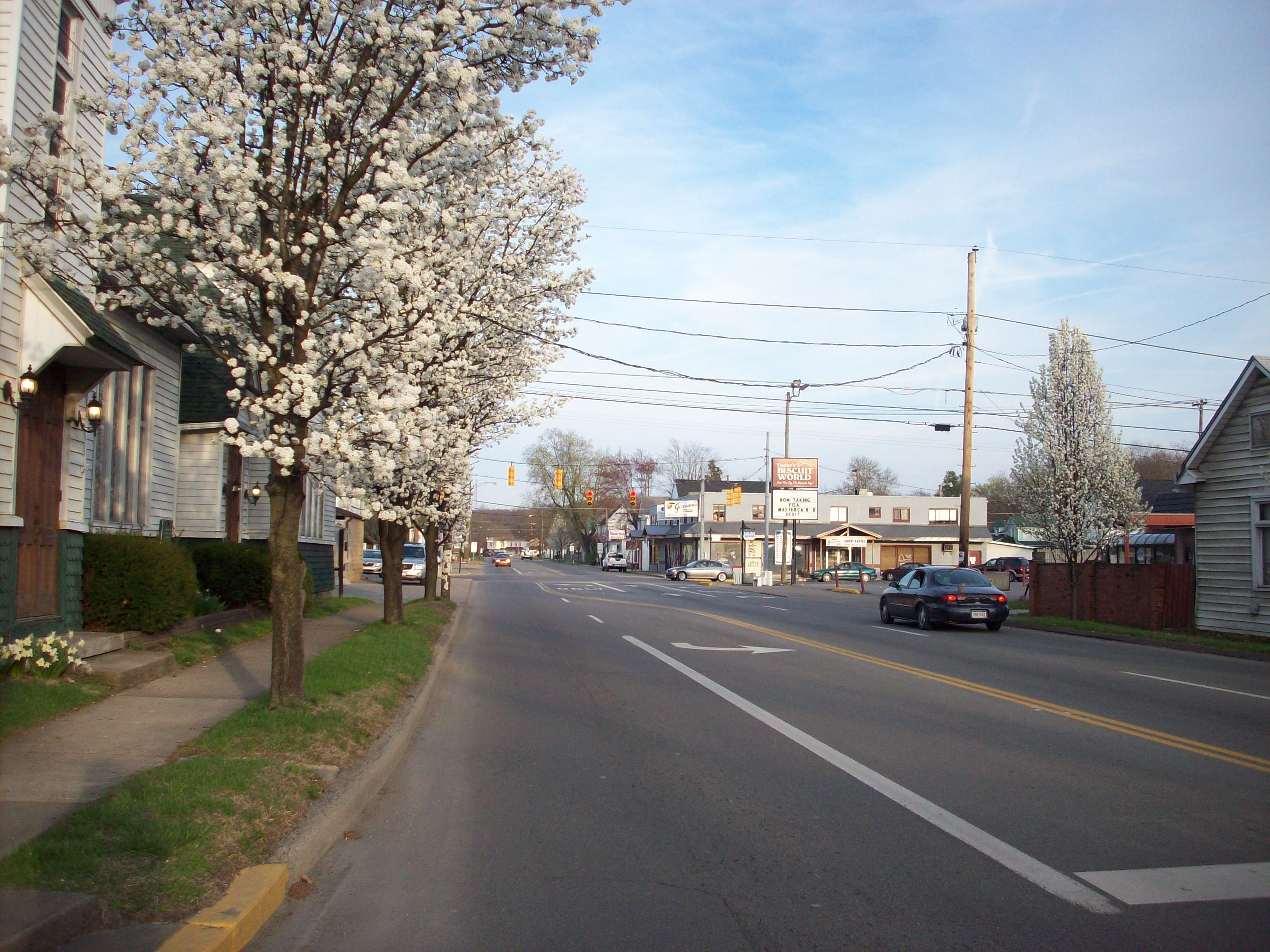 Photo of U.S. Route 60 in Ceredo, West Virginia looking east from its intersection with 1st Street West.